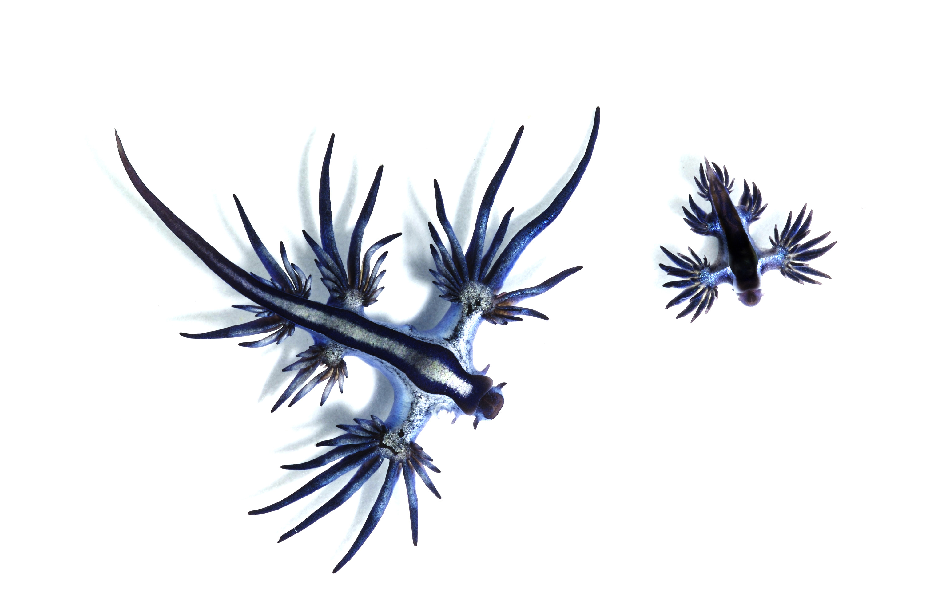 These Glaucus atlanticus (left) and Glaucilla marginata were washed up on Surfers Paradise Beach in Queensland Australia. The larger one is about 35 mm in length.